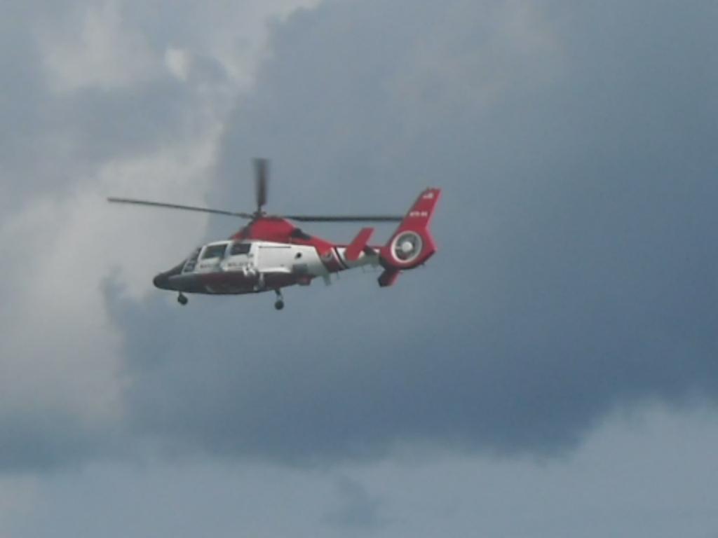 The MMEA Dauphin on flight during the LIMA 2011, Langkawi, Malaysia.